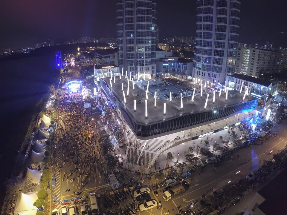 Karpal Singh Drive during Deepavali celebration